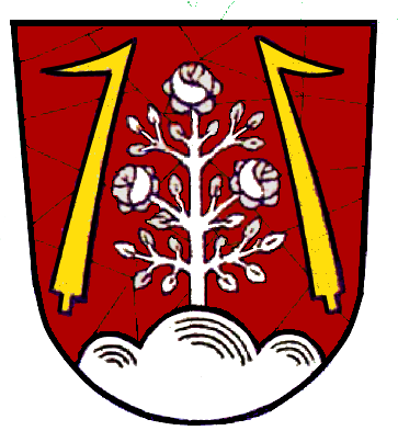 Coat of Arms of Viehhausen in Sinzing